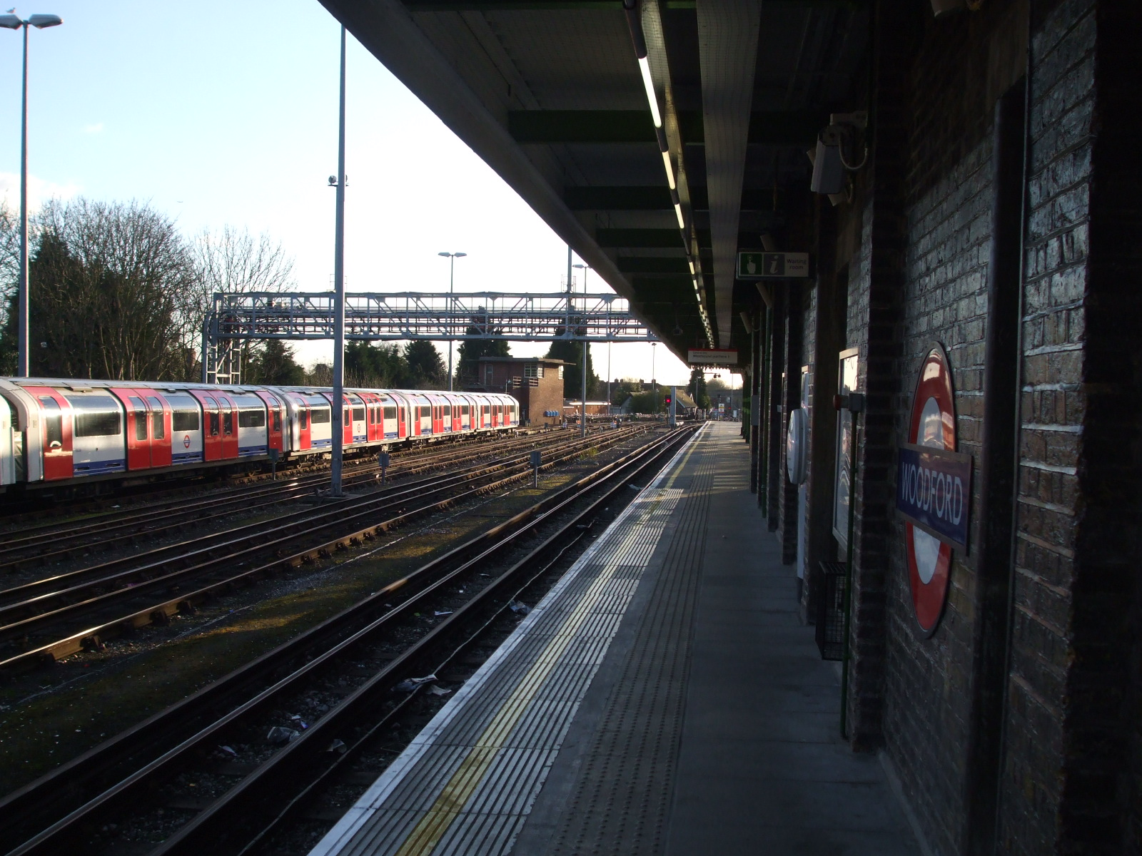 Looking south ("westbound") at Woodford tube station bay platform, with sidings on the left.